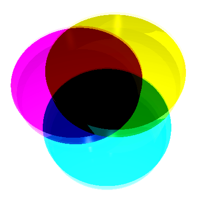 Cropped from commons image Color-subtractive-mixing.png which had too much wasted white space Summary: Subtractive mixing of colors with C, M and Y light absorbers (simulated glass) Size: 400x400, 32bit color Category: Color photography, Printing Author: Mirsad Todorovac ; Date: 2006-02-24 Software: (Linux + KDE), kpovmodeler, vi, POV-Ray 3.6; GIMP 2.2 (finish) Permission to freely use/distribute/modify this image is hereby granted, provied that credits are maintained. You do not have to cite the author if you are using the image in educational work, but you may not claim you made it, as this would be extremely uncool. POV-Ray model available under same license on email request, but it is fairly simple anyway. License copied here; granted by Mirsad Todorovac